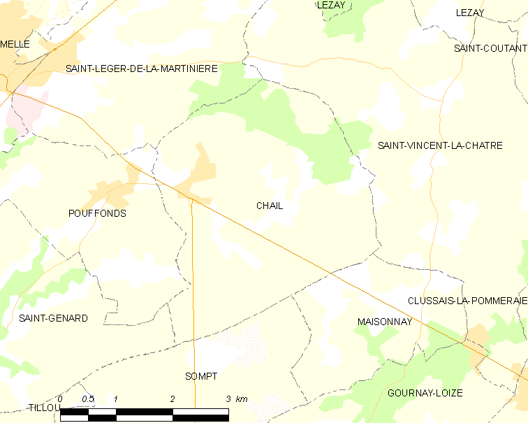 Map of French municipality Chail